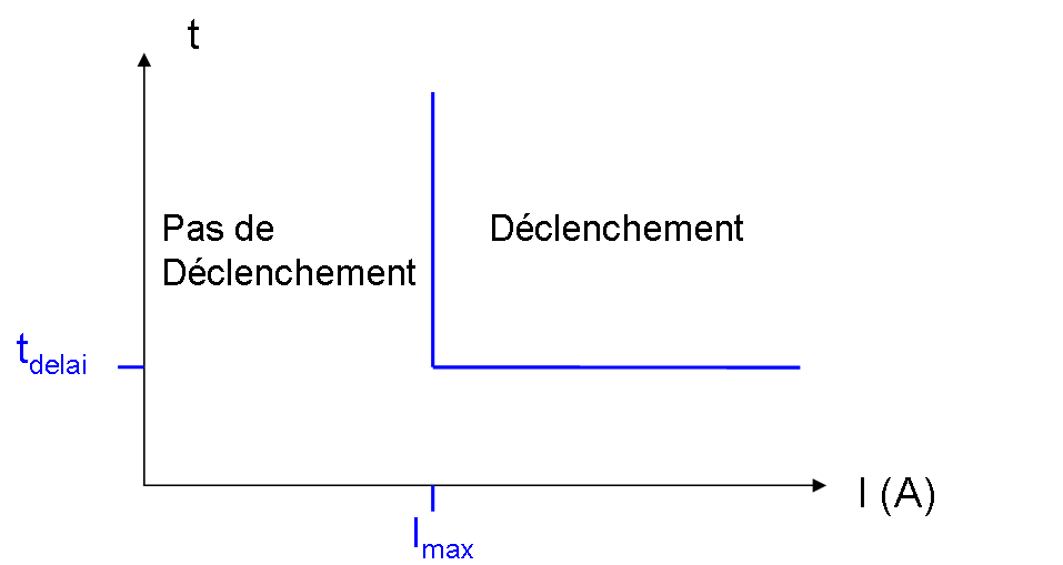 Protection maximum de courant avec délai